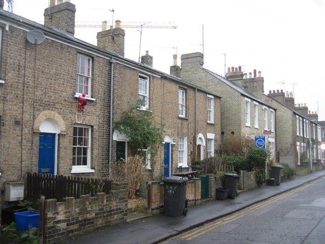 A typical Cambridge terrace Covent Garden, just to the south of Mill Road.